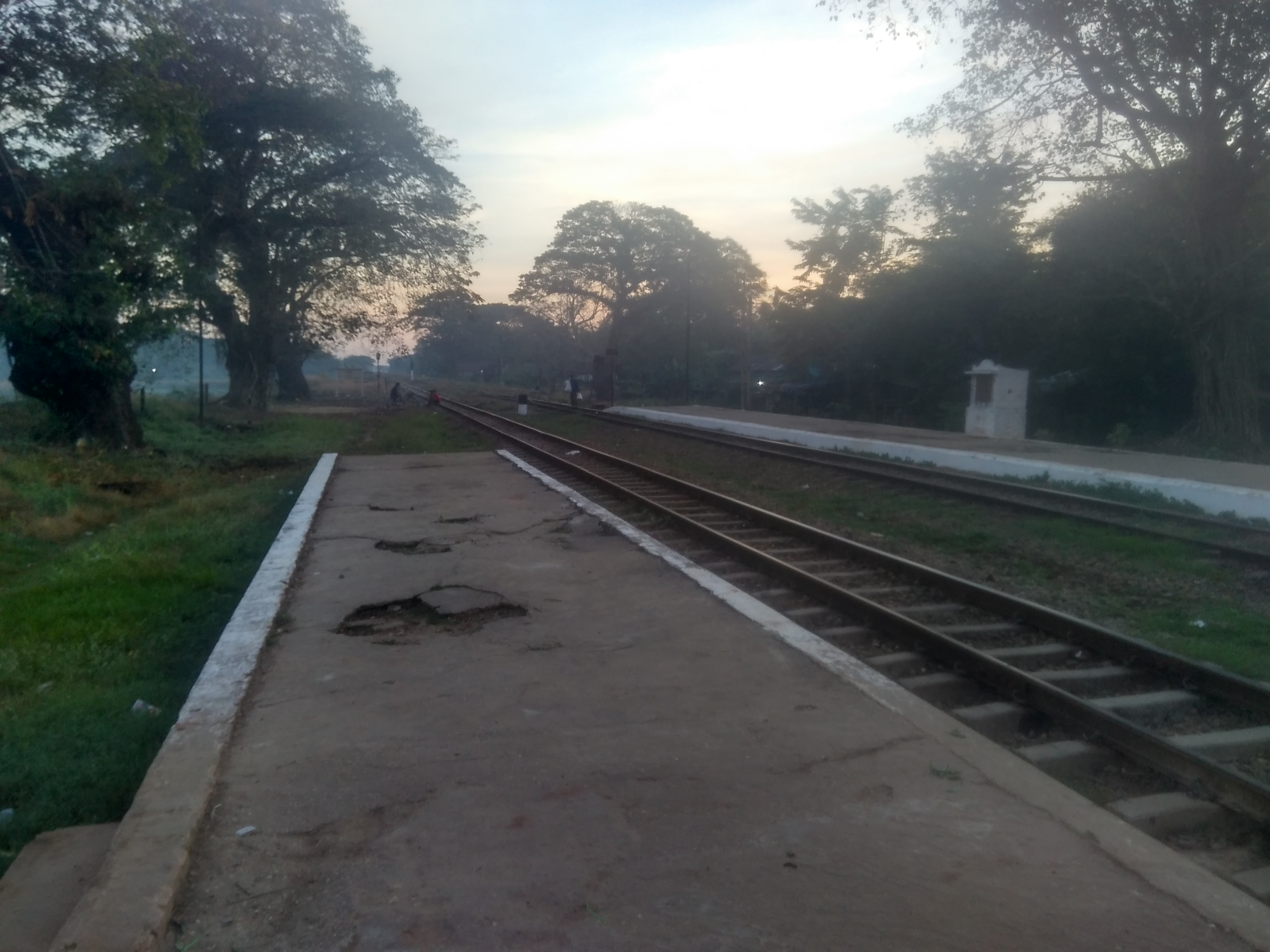 Darbein railway station, Yangon, Myanmar မြန်မာဘာသာ: ဒါးပိန်ဘူတာရုံပုံ